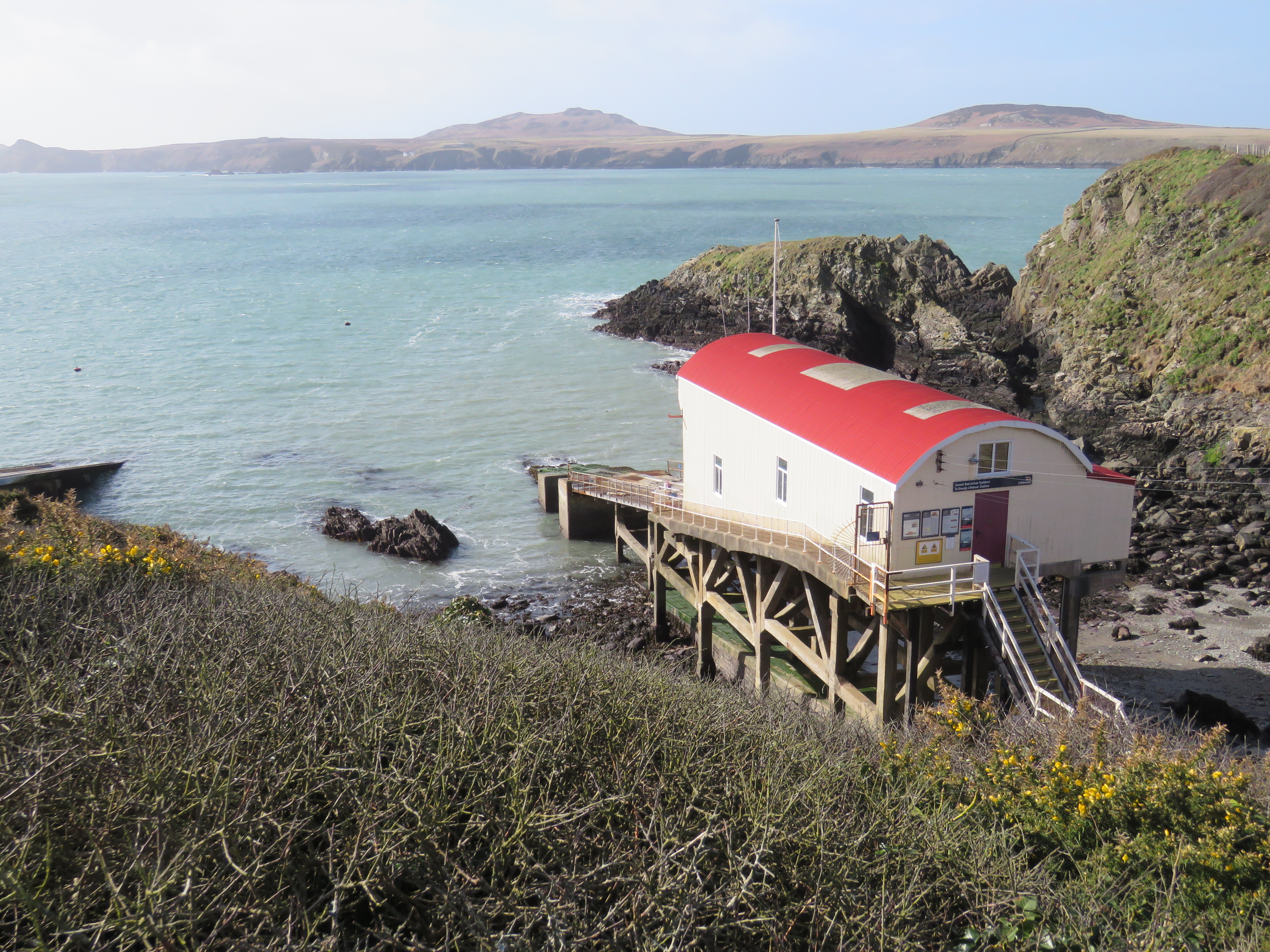 St Davids lifeboat station, St Justinians, Pembrokeshire (second of three)